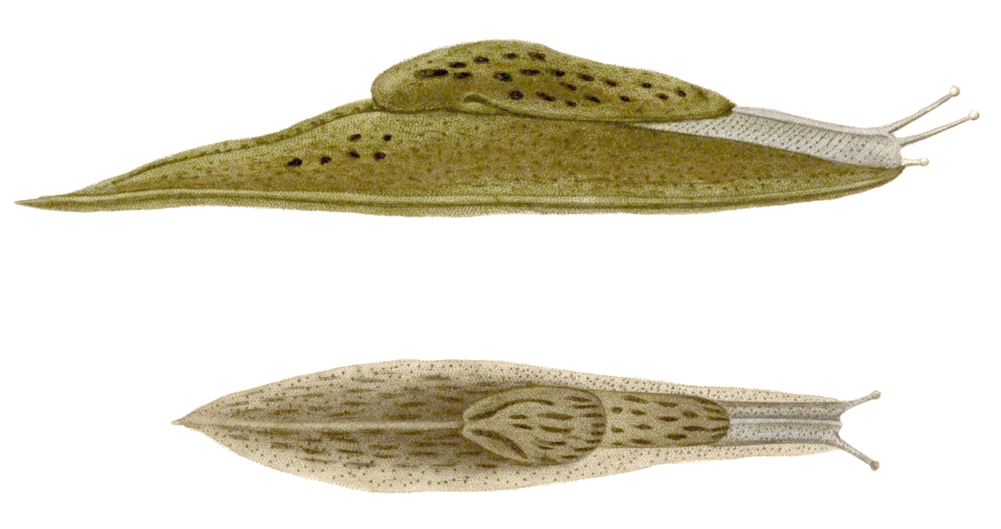 Drawing of Cryptella canariensis, syn. Parmacella canariensis.